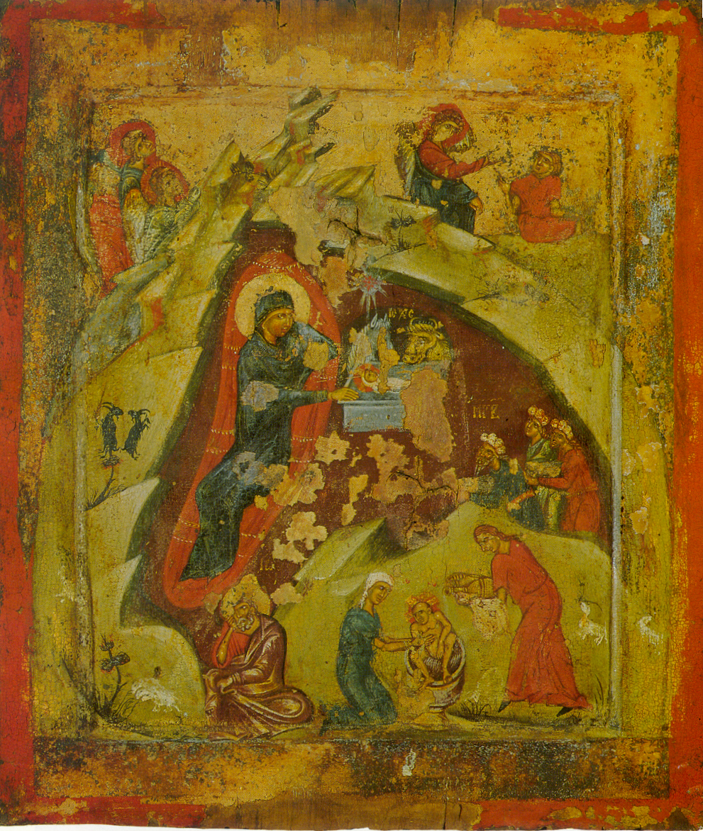 Nativity of Jesus, icon from Kastoria.